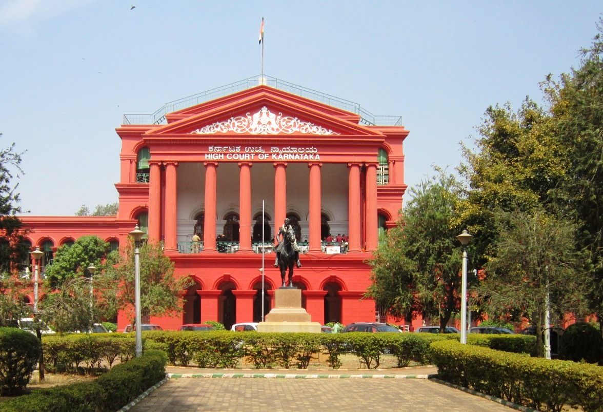 high court of Karnataka state,India